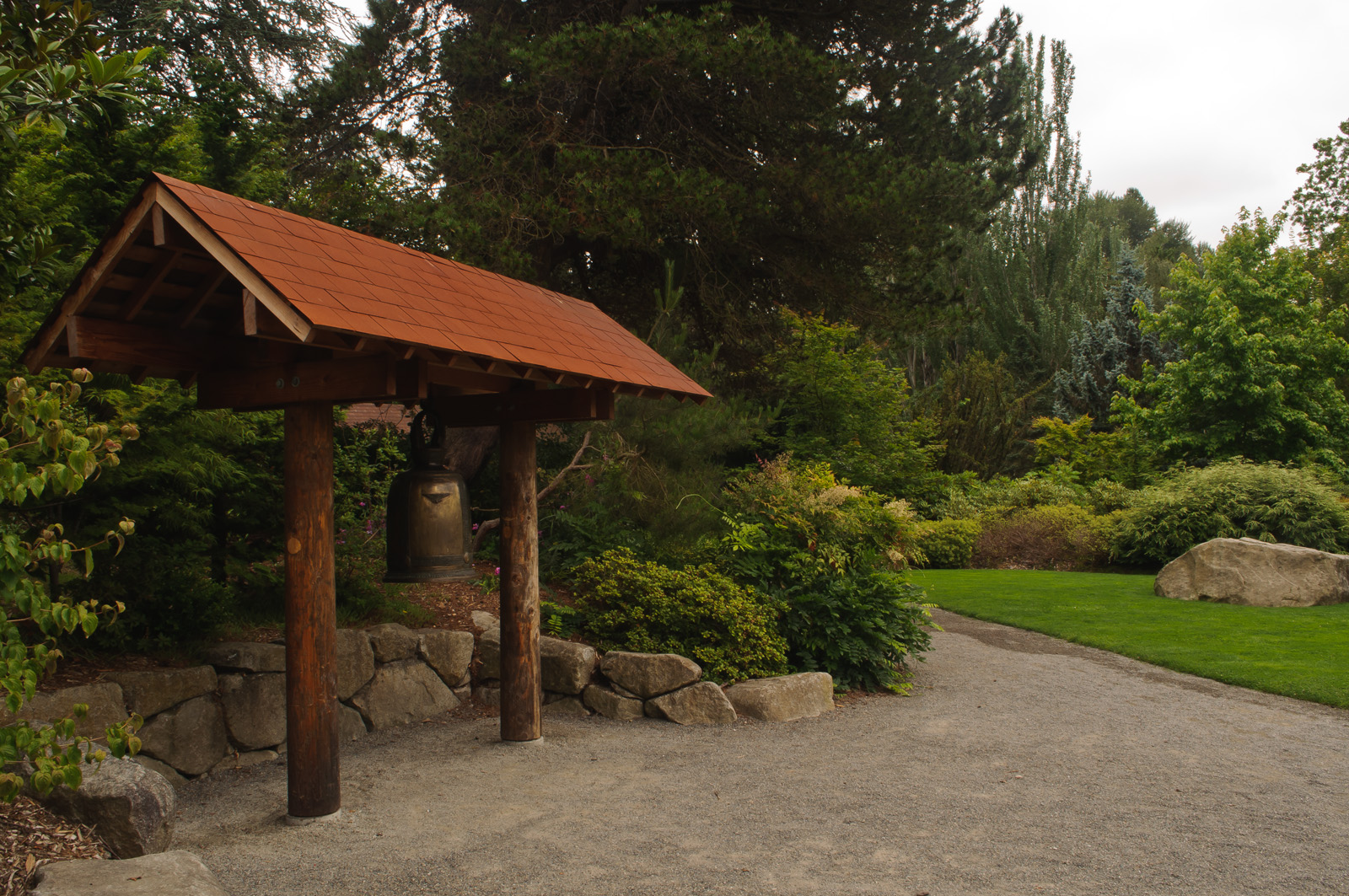 On a cool, cloudy morning, I am checking out Kubota Garden in southeastern Seattle. Built by Japanese immigrant Fujitaro Kubota (1879-1973) between 1927 and 1963, and further refined by his American-born son Tom Kubota (1917-2004) until being acquired by the City of Seattle in 1987, it combines Japanese aesthetics and Pacific Northwest natural settings into a stunning setting. Best of all, as a public park, admissions is free, and the garden is curated by a nonprofit foundation.